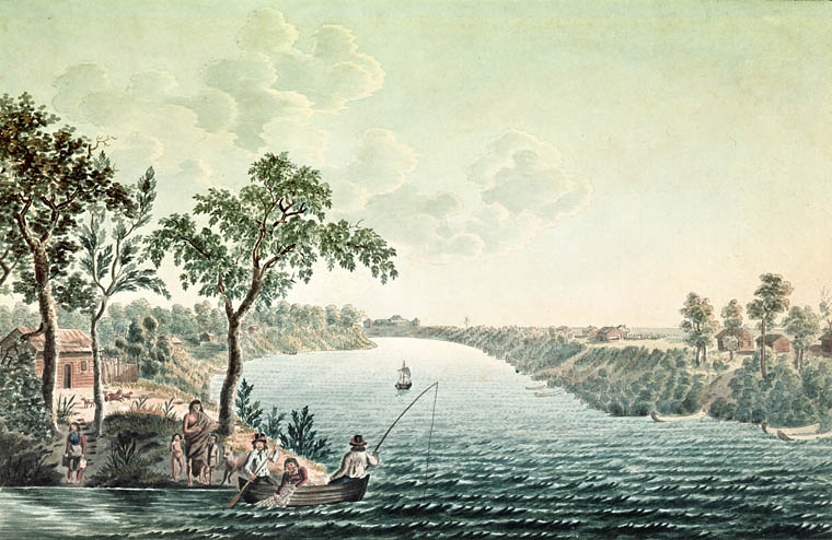 Summer View in the environs of the Company Fort Douglas on the Red River. Drawn from nature in July, 1822.